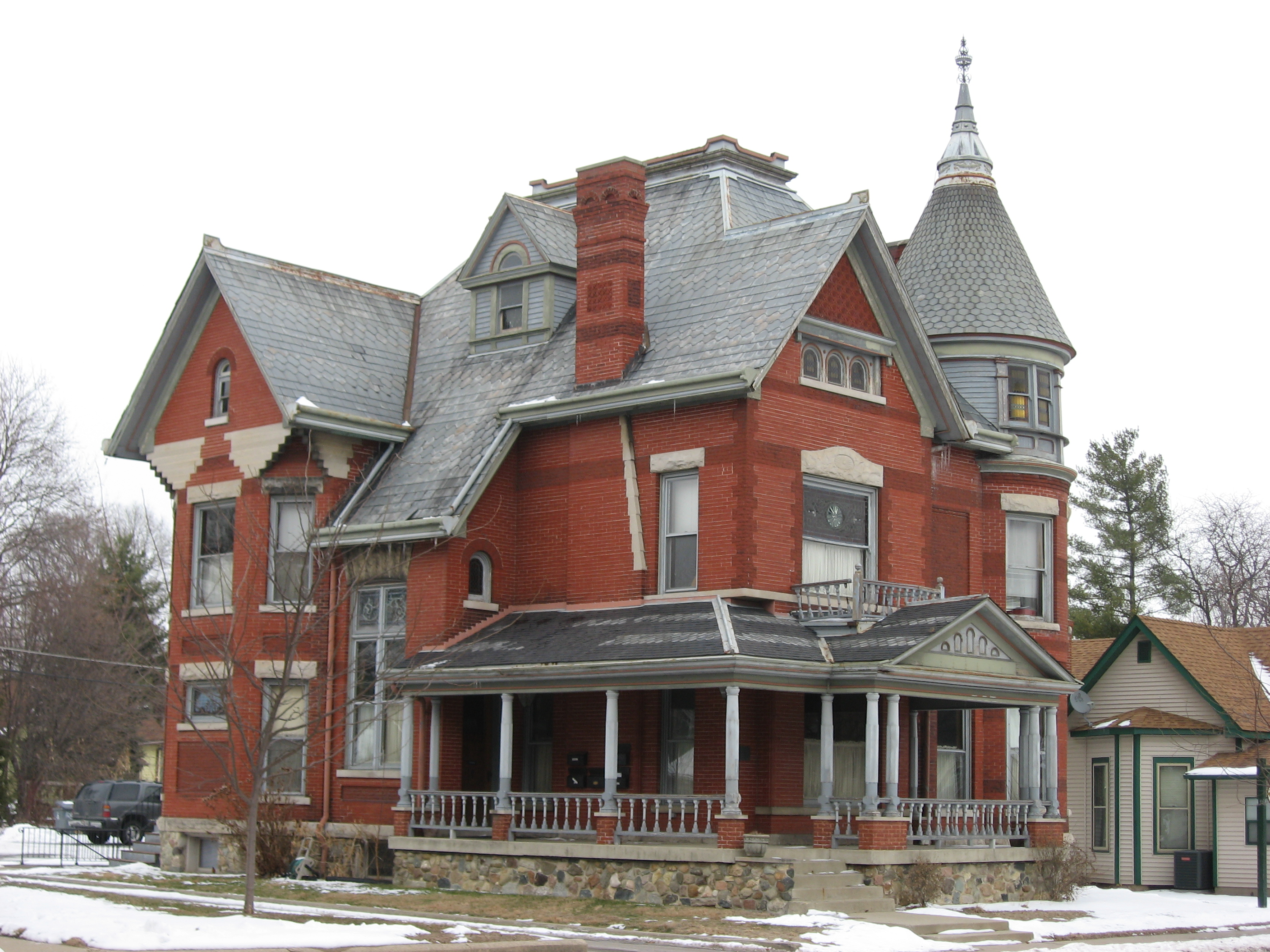 Front and western side of the William Houston Craig House, located at 1250 E. Conner Street in Noblesville, Indiana, United States. Built in 1893, it is listed on the National Register of Historic Places, and it is part of a Register-listed historic district, the Conner Street Historic District.